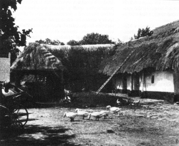 Jamolice, farming part of the rustic house.